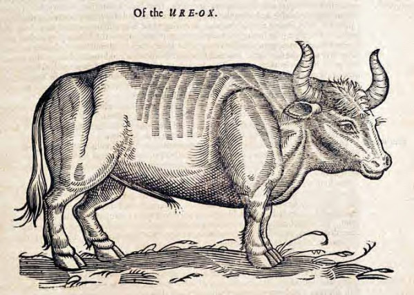 This woodcut is an illustration from the book The history of four-footed beasts and serpents by Edward Topsell.